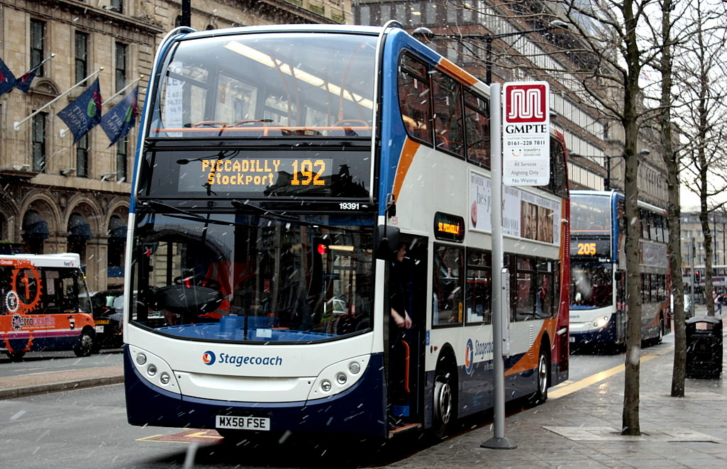 Stagecoach in Manchester 19391 (MX58 FSE), an Alexander Dennis Enviro400, in Portland Street, Manchester, on route 192. Piccadilly Stockport